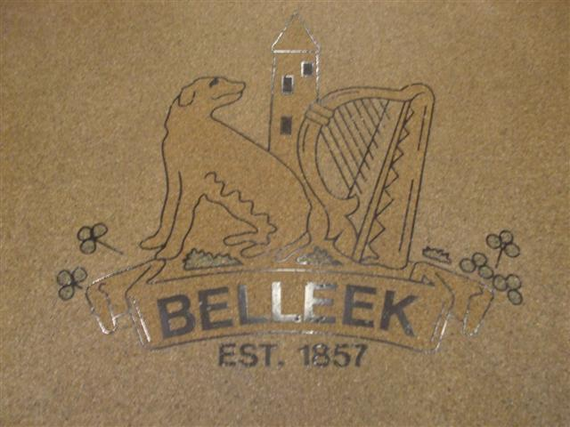 Belleek Marks The stamp includes shamrocks, the Irish wolfhound, the round tower, the Irish harp and Belleek name. It is not complete without all of these. This one though, is not incorporated in the pottery, it is ingrained in the floor covering.